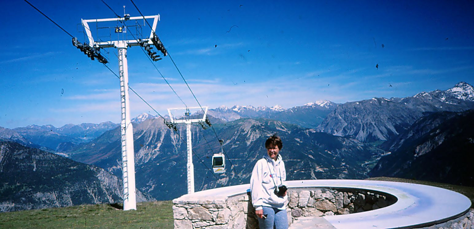 Orientation table in the mountains near Briancon, France. In the background the 'Prorel Cable Car'. July 1996.